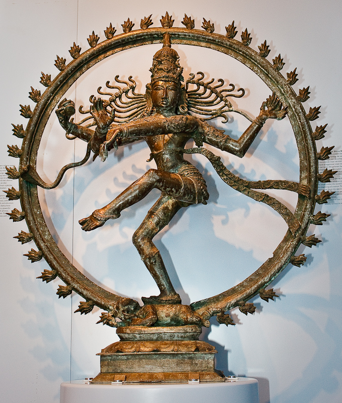 Shiva Nataraja (6274-1) Nataraj, the dancing form of Lord Shiva, is a symbolic synthesis of the most important aspects of Hinduism, and the summary of the central tenets of this Vedic religion. The term 'Nataraj' means 'King of Dancers' (Sanskrit nata = dance; raja = king).